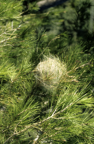 Pinus halepensis with Thaumetopoea pityocampa caterpillar nest